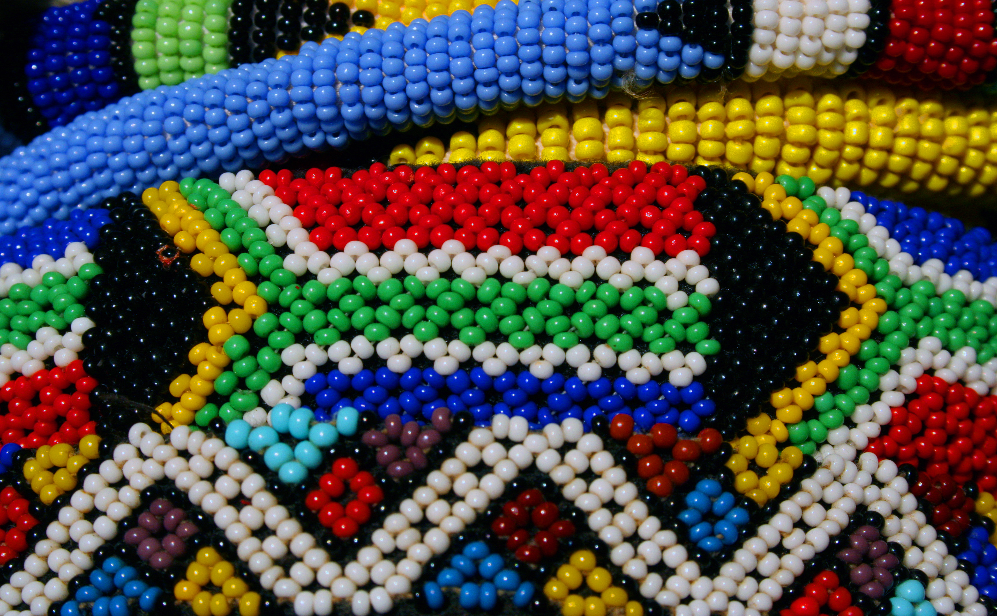 Ndebele Art